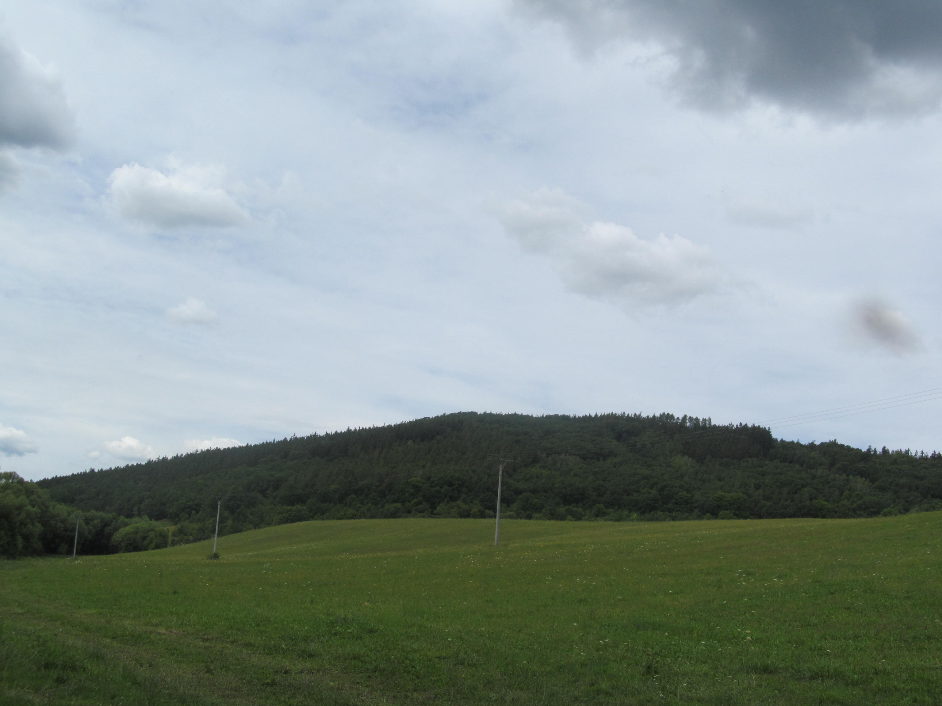 Skytalský hill from Vesce village